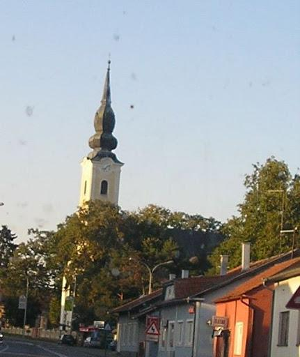 Church in Croatia